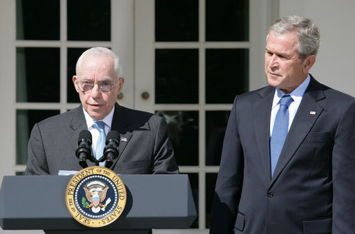 President George W. Bush listens to remarks by Michael Mukasey after announcing his nomination Monday, September 17, 2007, in the Rose Garden, to be the 81st Attorney General of the United States.